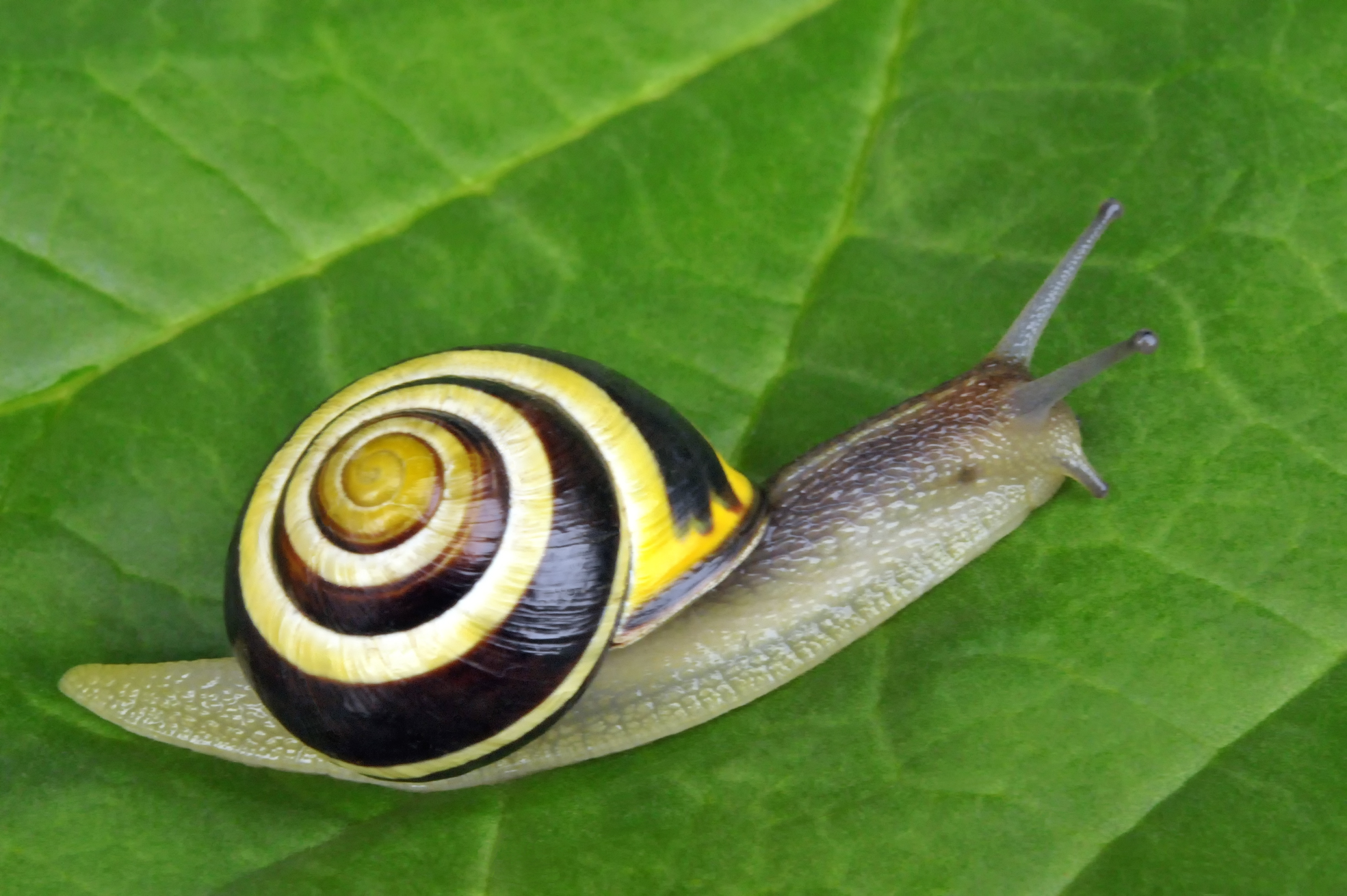 Grove snail near Hildesheim, Lower Saxony, Germany